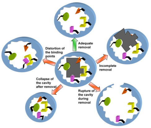 Template removal for molecular imprinted polymers is challenging. Many methods currently exist. Among these methods are: solvent extraction, physically-assisted extraction, ultrasound-assisted extraction, microwave-assisted extraction, pressurized-liquid extraction, subcritical water extraction,and supercritical fluids extraction.